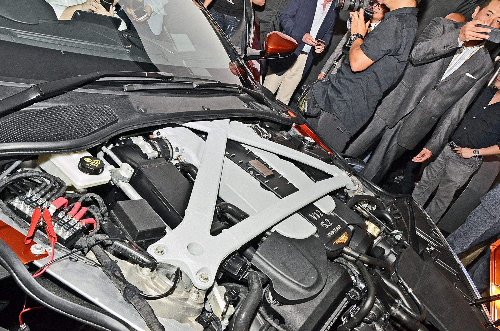 Daimler-sourced 5.2L twin-turbo V12 inside DB11